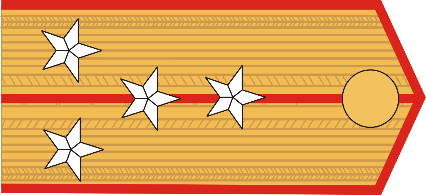 Russian rank insignia (1943-1945), here "Captain" (OF2) – shoulder strap Army (infantry, motorized infantry) field uniform, color khaki.